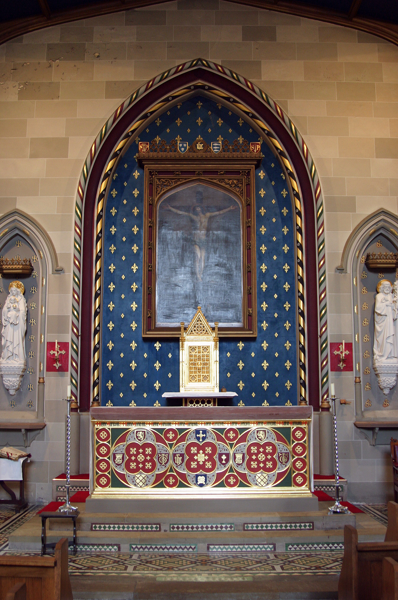 SS Peter and Paul, Newport, Shropshire. Designed by Augustus Pugin. Martin Burns.